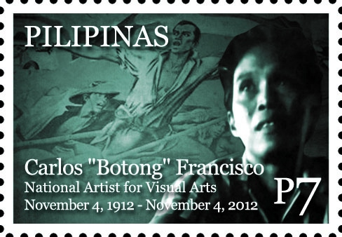 Carlos "Botong" Francisco Birth Centenary